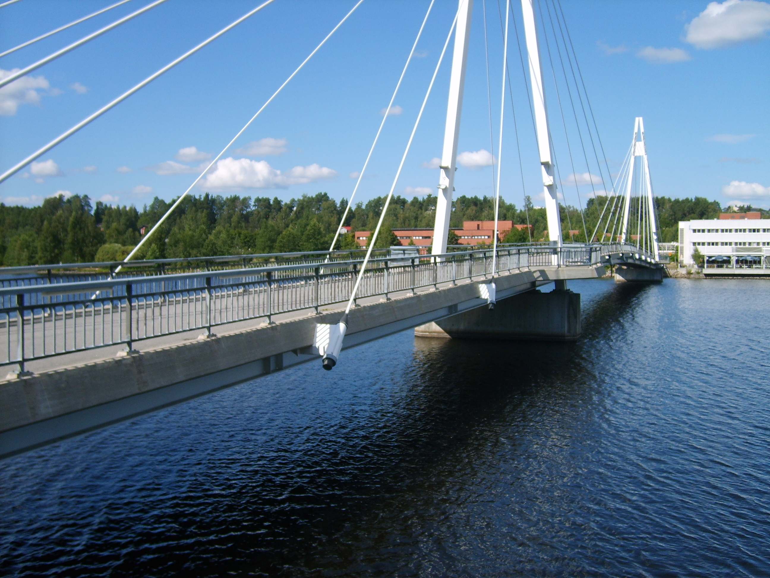 The second smaller bridge of Jyväskylä, it connects two different parts of its university